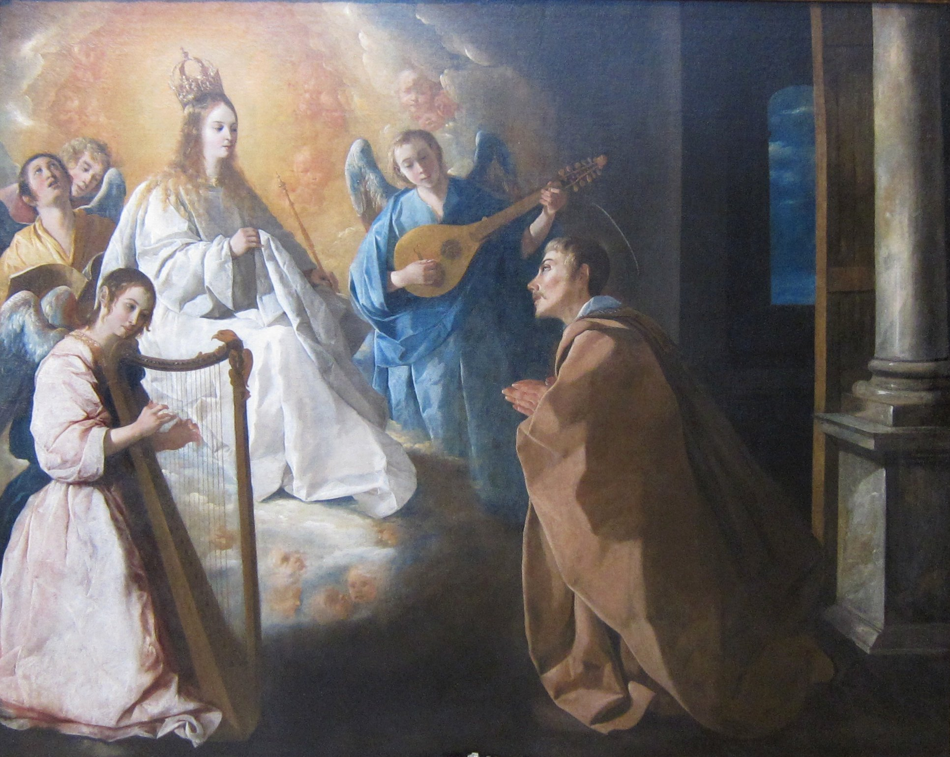 'The Virgin Mary Bestowing the Habit of Mercedarians on Saint Peter Nolasco, oil on canvas painting by Francisco de Zurbarán, 1628-34, Getty Center